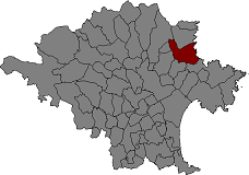 Location of Llançà in Alt Empordà